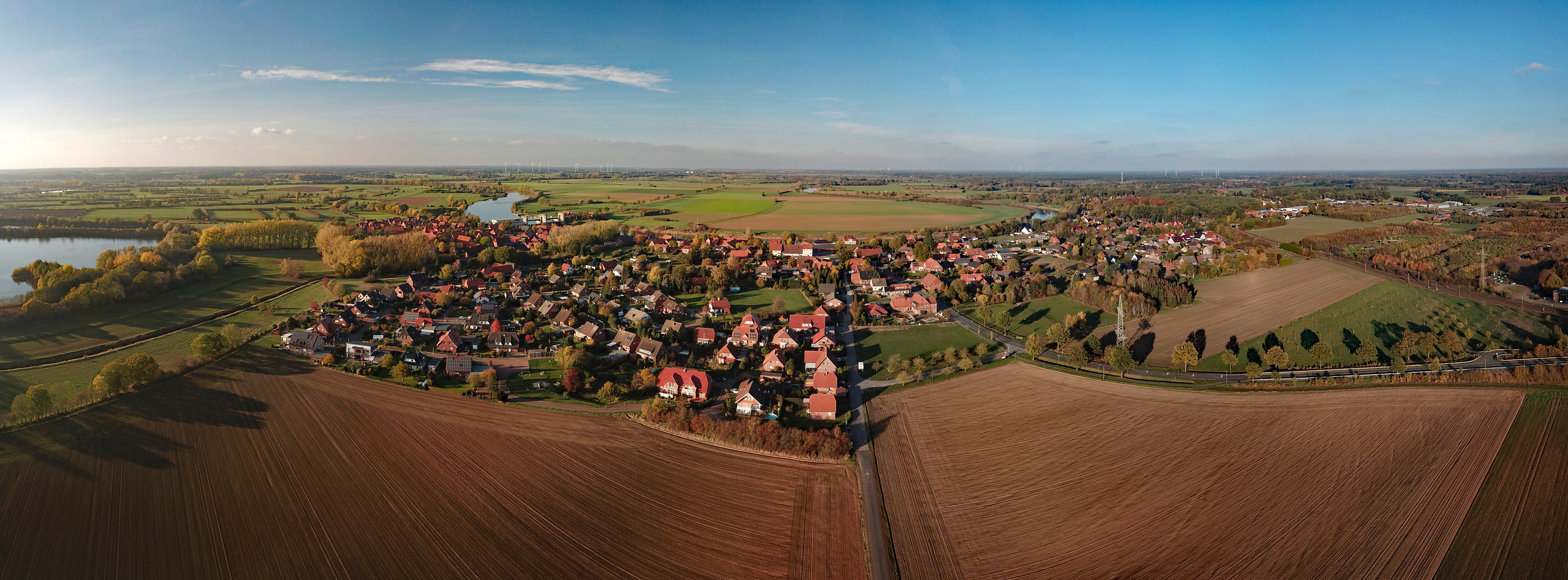 Drakenburg (Lower Saxony, Germany)